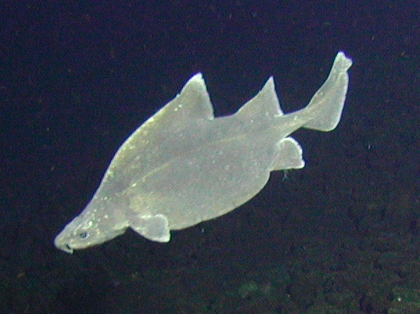 A prickly dogfish (Oxynotus bruniensis) at the Rumble V submarine volcano (cropped version of original to focus more on the fish).